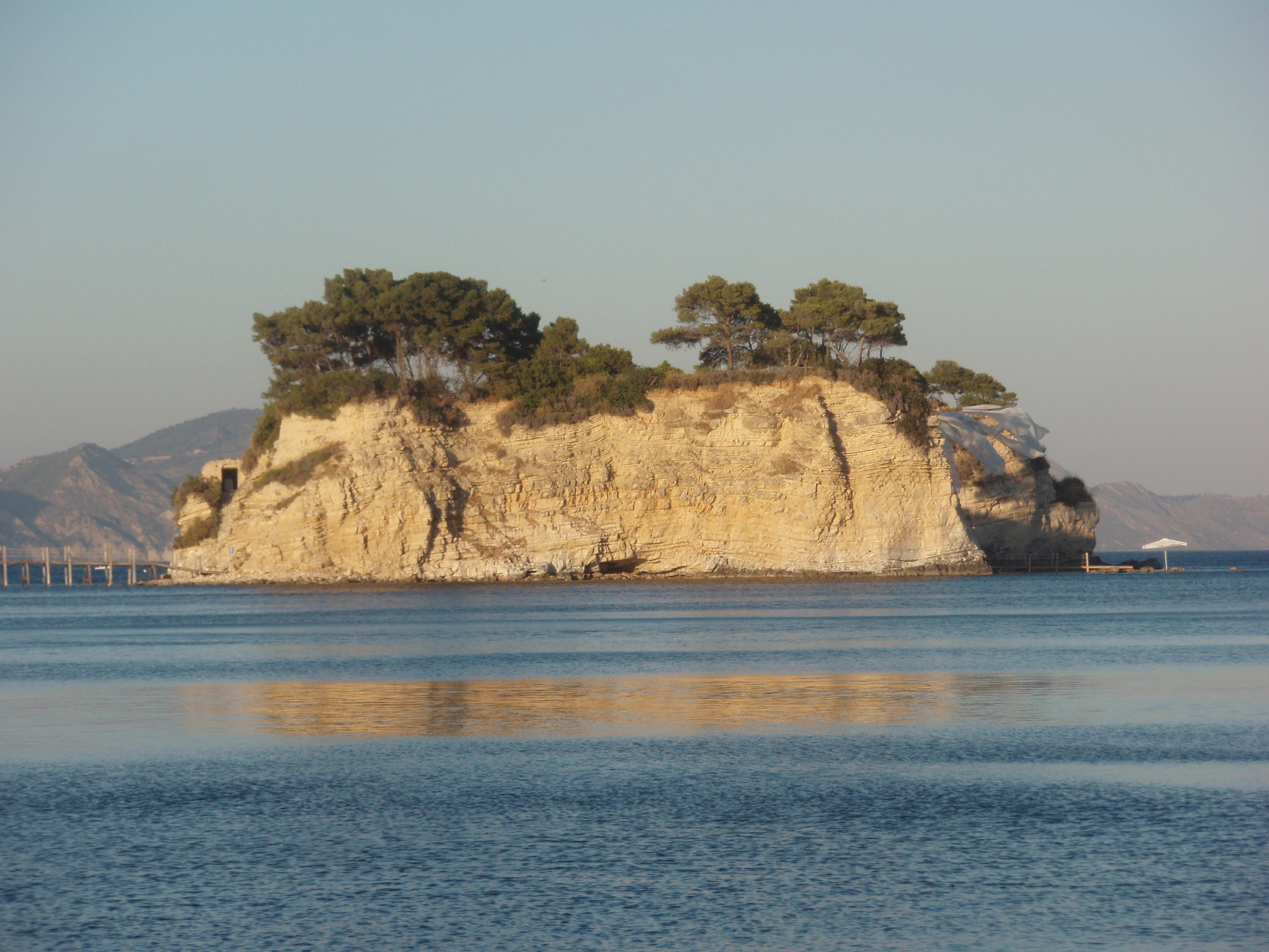 Agios Sostis island, Zakynthos, Greece. Photo taken from Agios Sostis beach.